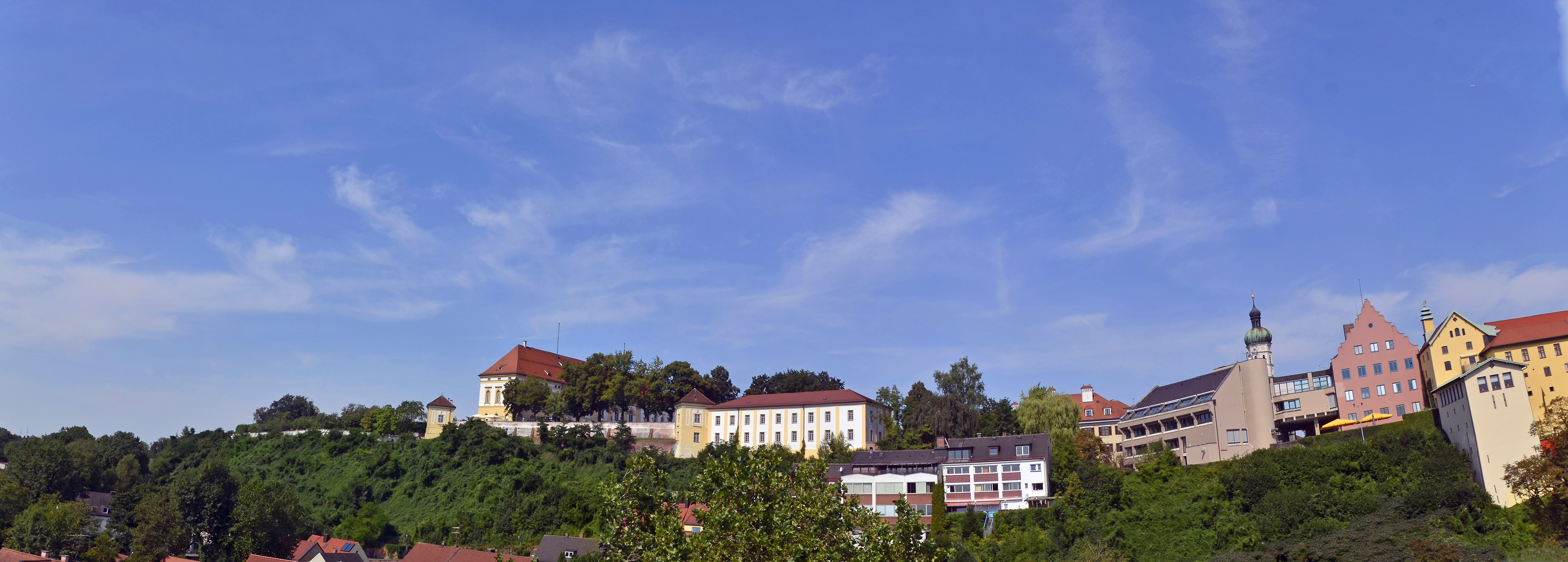 Dachau Castle and Castle Mountain